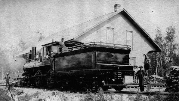 IB&O Engine #2 stands in Wilberforce station on the Irondale, Bancroft & Ottawa Railway in July 1895. The 4-4-0 locomotive was built by the Kingston Locomotive Company earlier that year. #2 was lost in an accident in 1902, and quickly replaced by the similar #3.